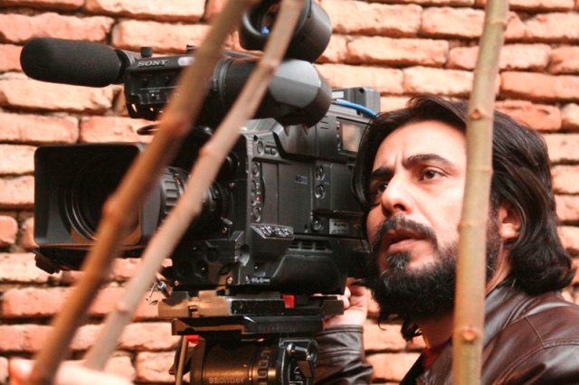 Behind the Scenes series, empty frames Photo: Sara ardebili